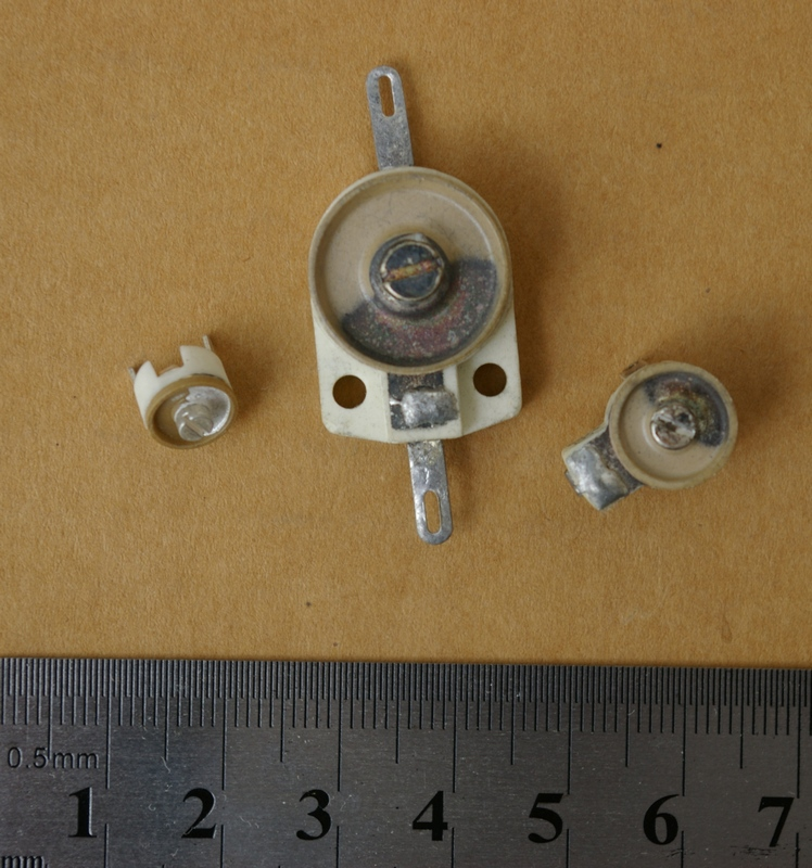 Ceramic trimmer capacitors